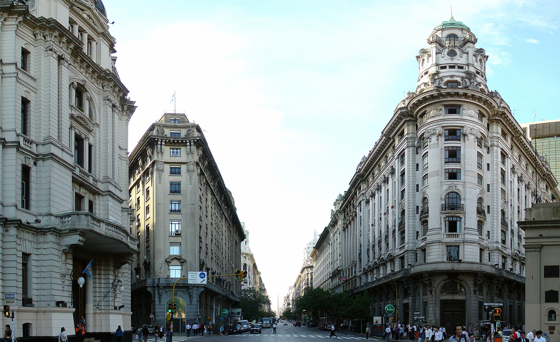 Avenida Roque Sáenz Peña (Diagonal Norte) and Obelisk of Buenos Aires, Argentina